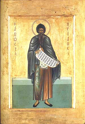 Saint Nilus of Sinai (russian Old Believers icon)